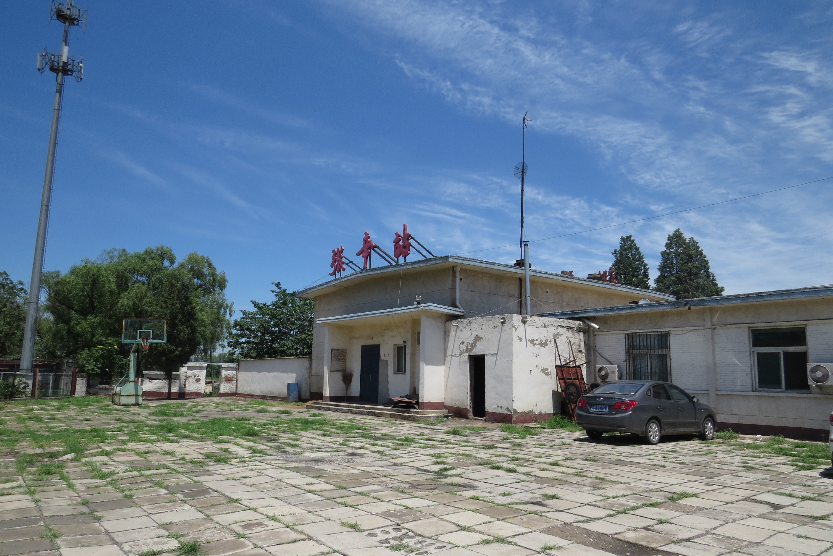 There is no ticket offices at this secluded station. A spur line to the fuel base of Beijing Capital International Airport is on its north.